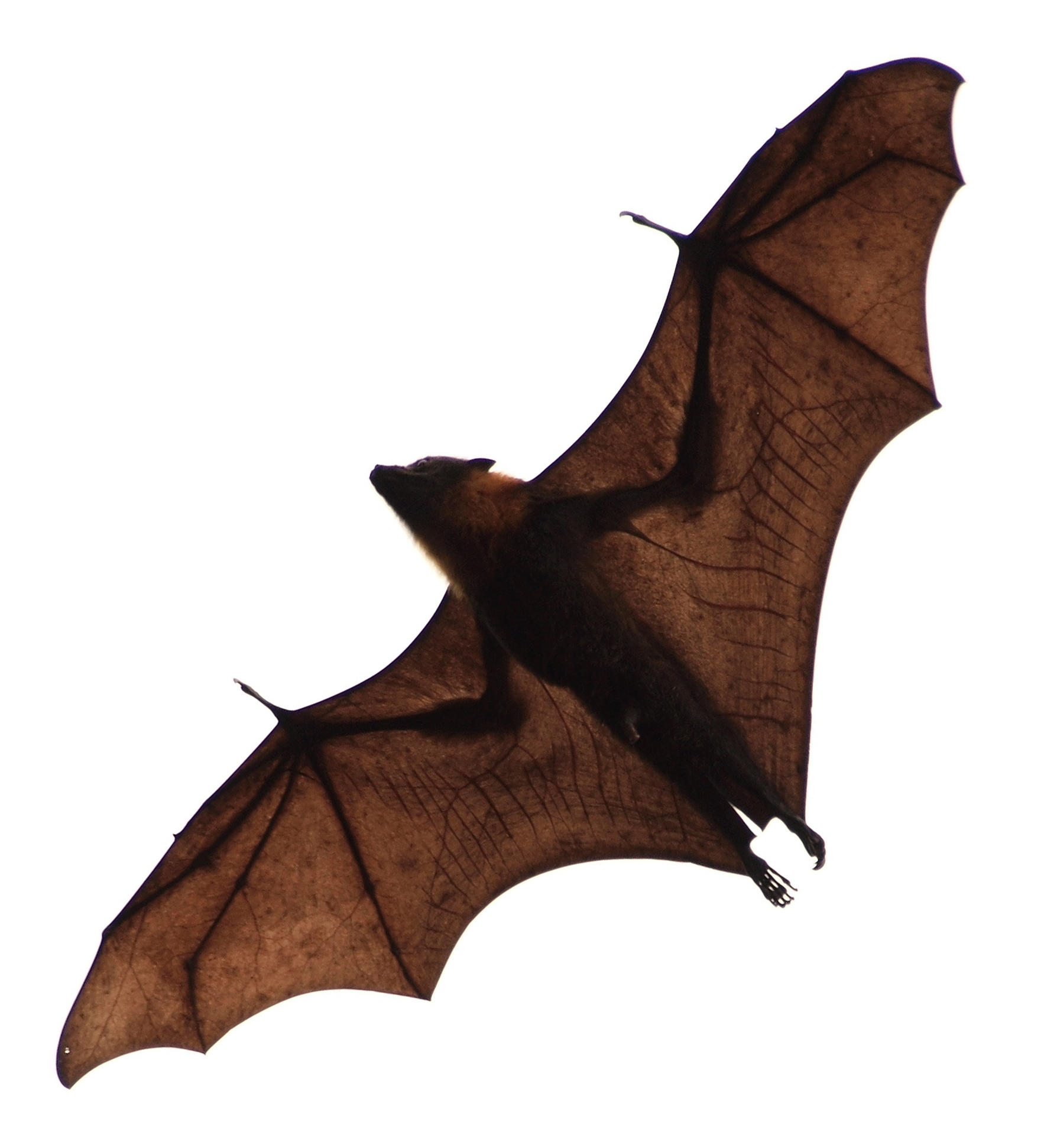 Flying fox at Royal botanical gardens in Sydney.